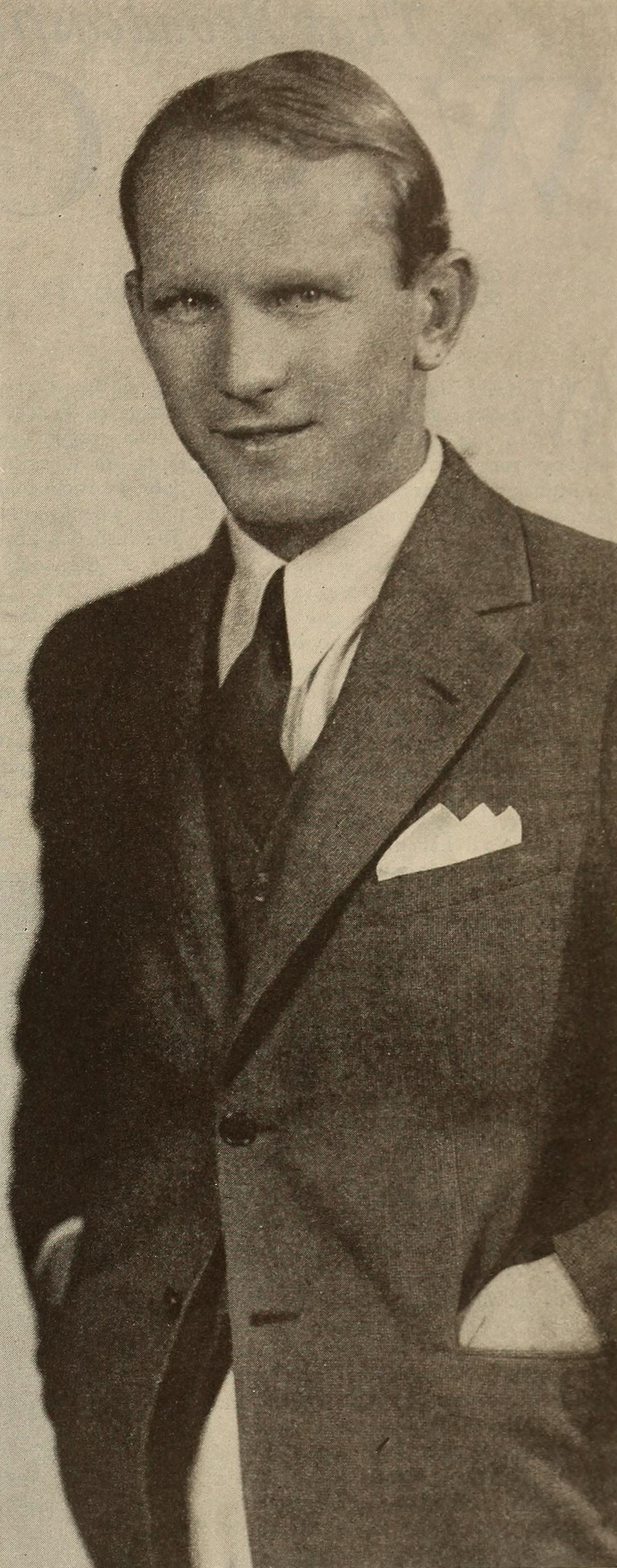 Portrait of Donald Novis